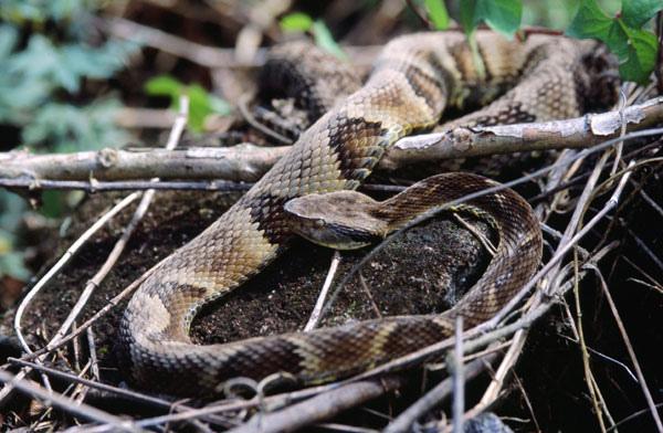 Jararaca (Bothrops jararaca). This photo was taken circa 2002 in Itatiaia, Rio de Janeiro, Brazil.